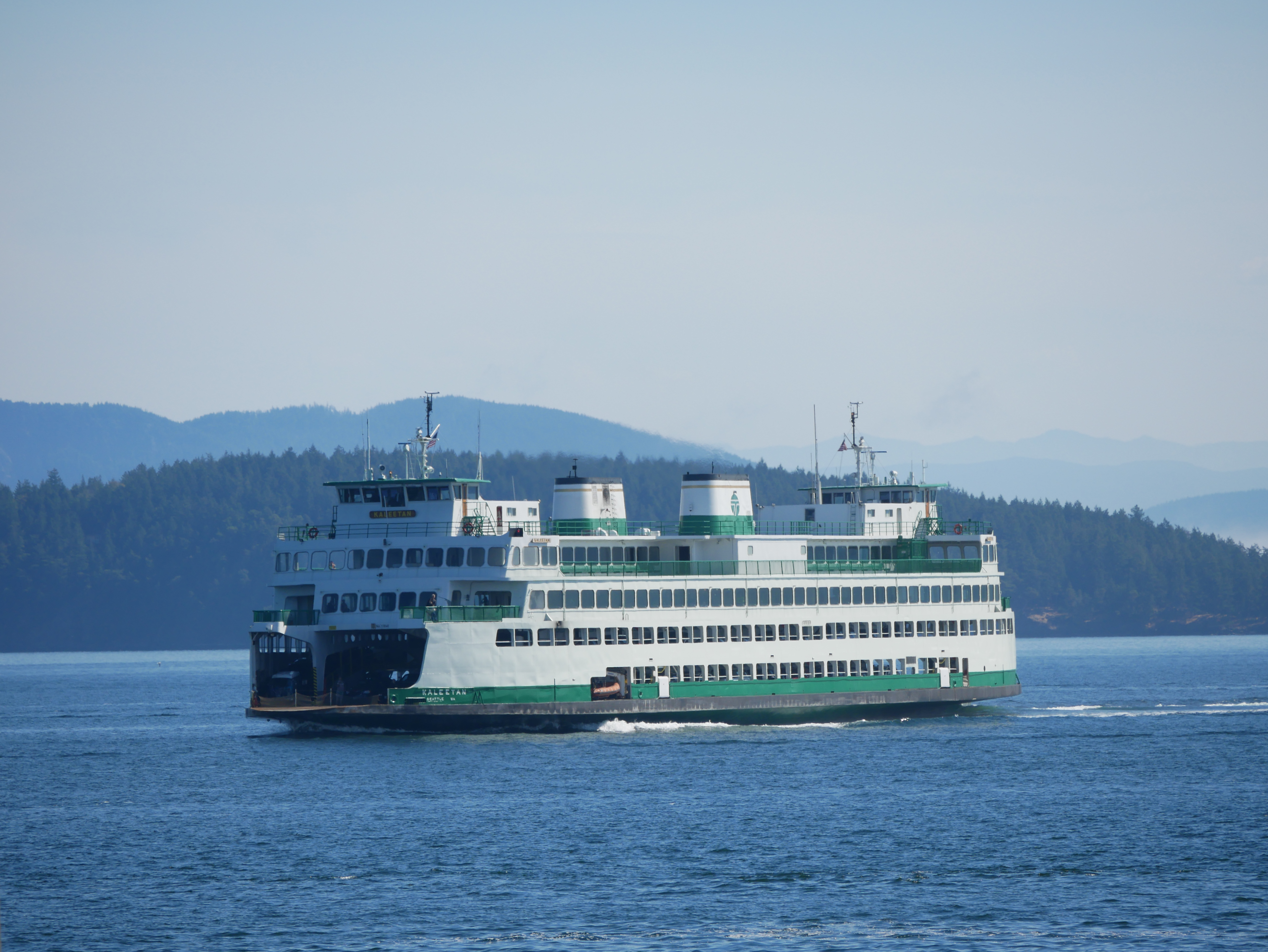 Kaleetan approaches Lopez Island Ferry Terminal